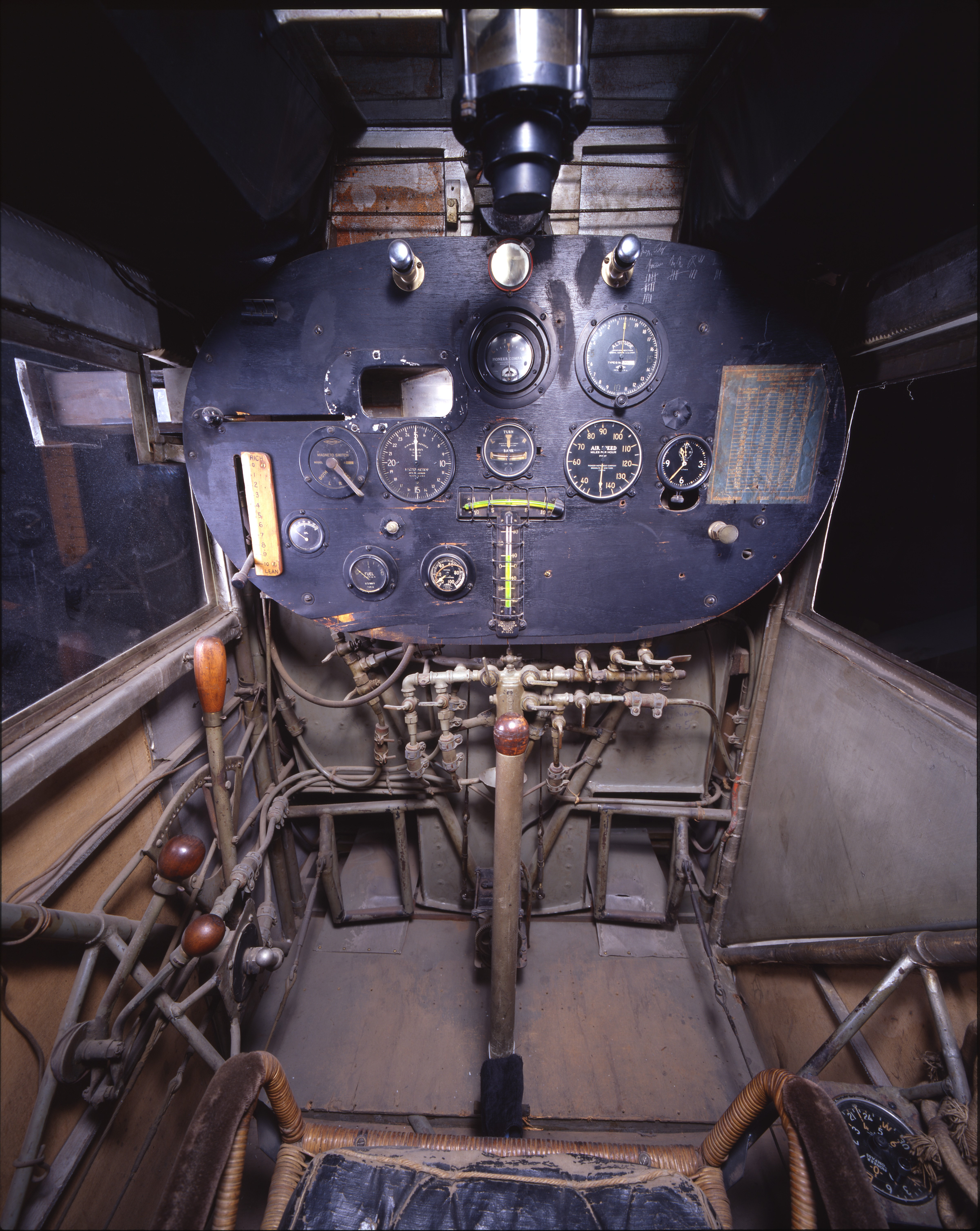 Head-on view, looking directly forward, of cockpit of Ryan NYP "Spirit of St. Louis" (r/n N-X-211, A19280021000), showing forward instrument panel, stick, throttle, rudder pedals, fuel control system, etc.